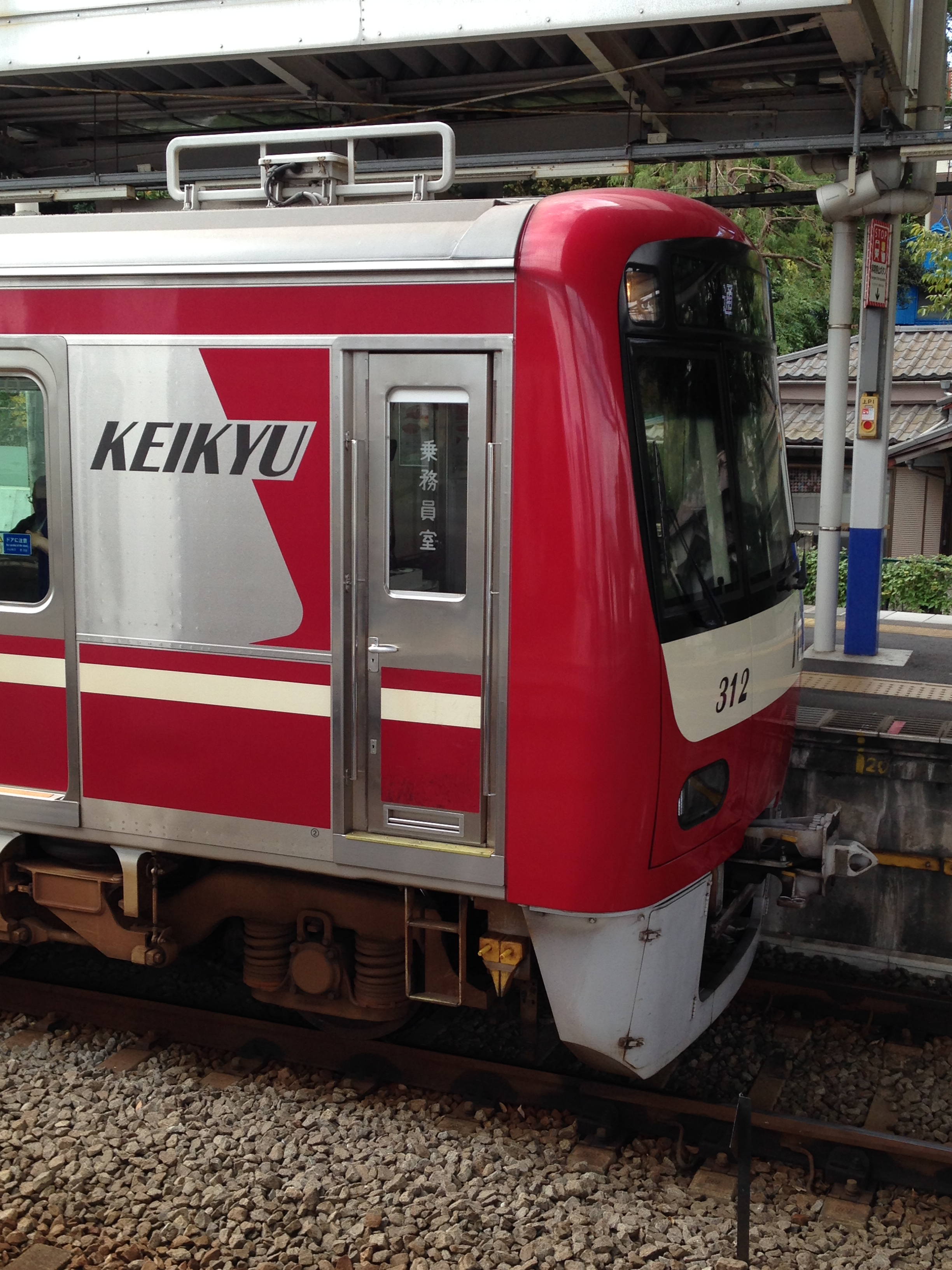 Front of Keikyu N 1000 stainless body type